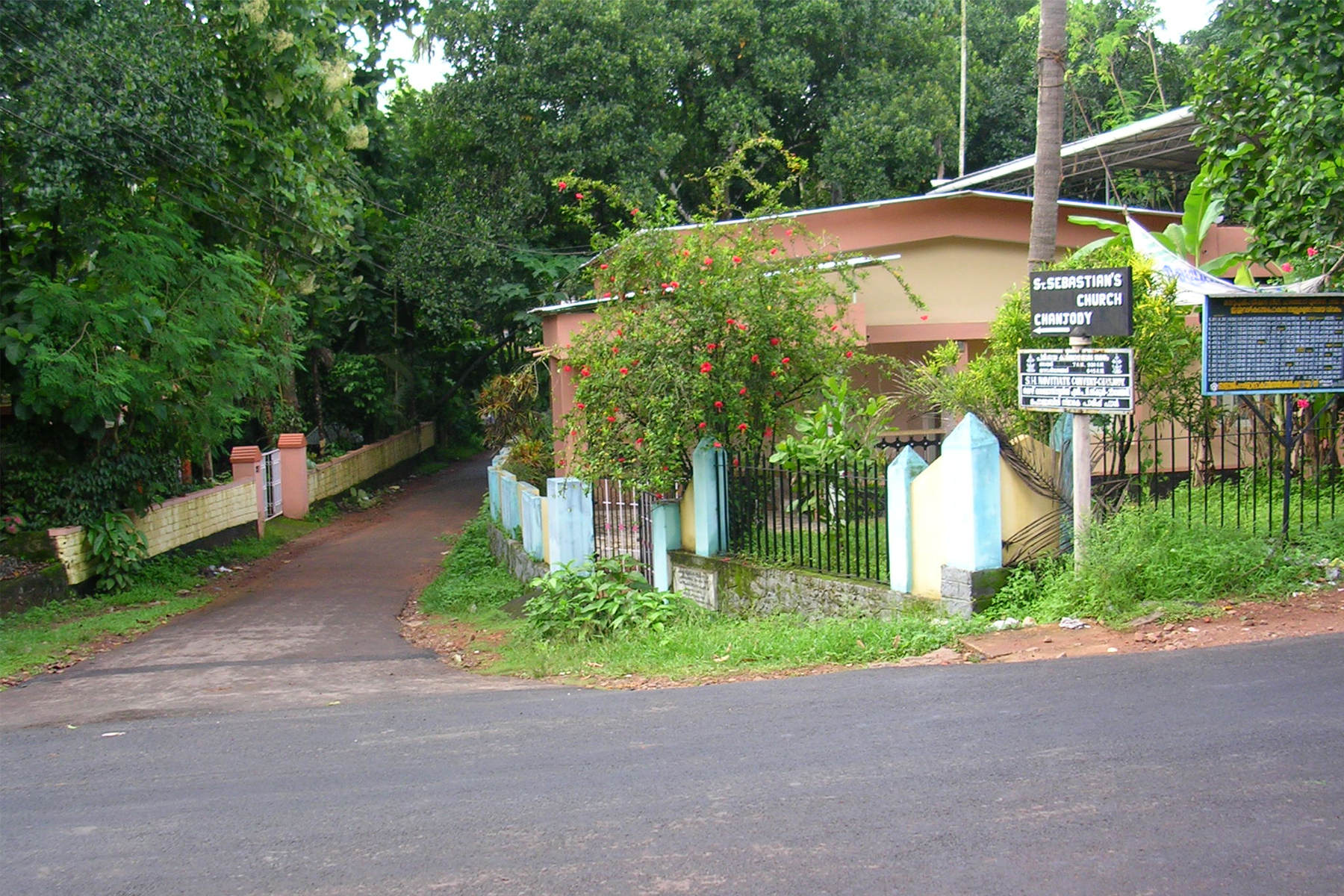 Chanjody Pallipady Junction